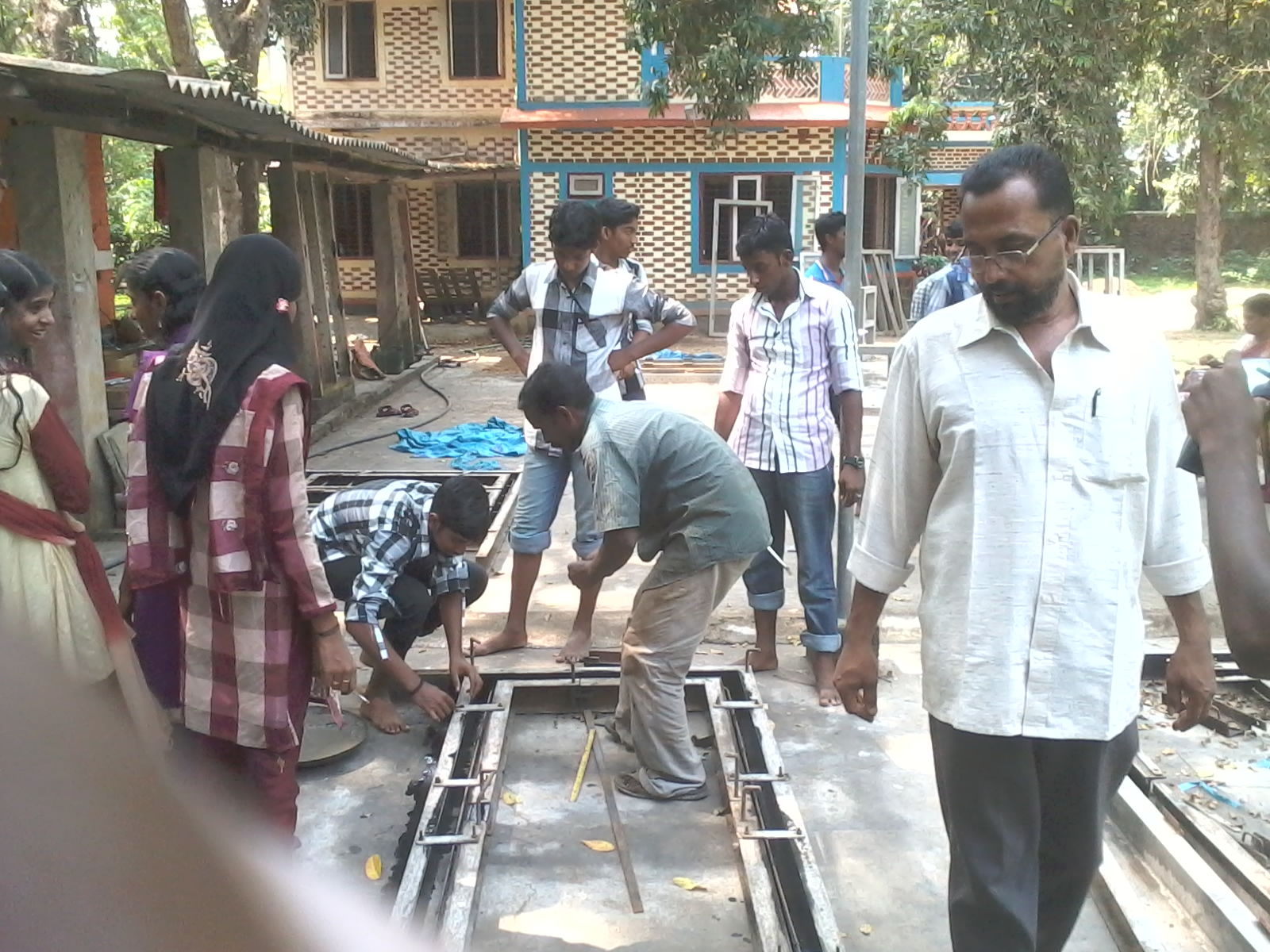 pre-cast doors and windows frames